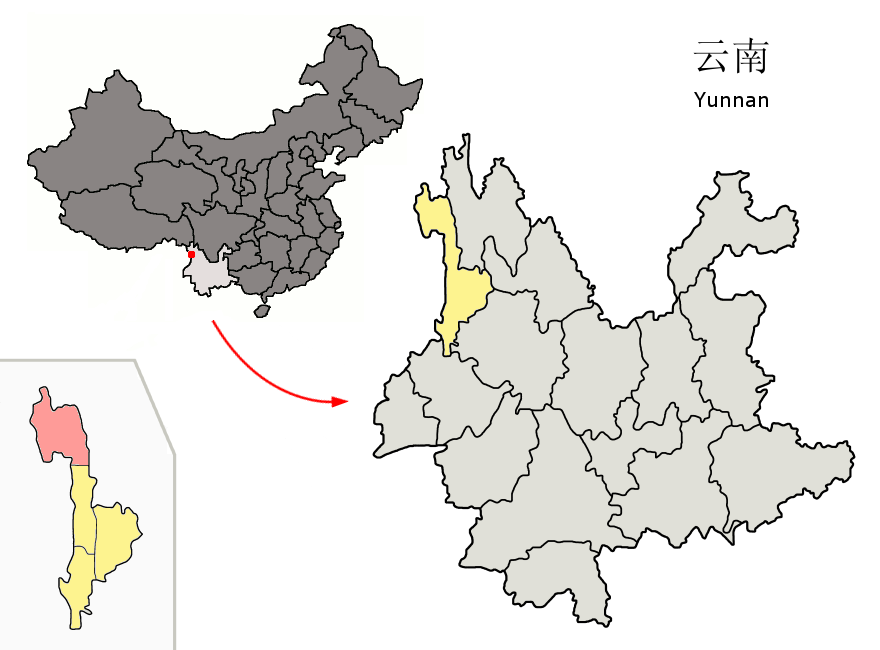 Location of Gongshan County (pink) and Nujiang Prefecture (yellow) within Yunnan province of China Map drawn in september 2007 using various sources, mainly : Yunnan province administrative regions GIS data: 1:1M, County level, 1990 Yunnan Counties map from